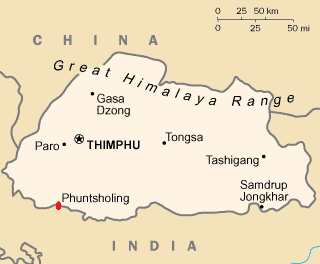 Map of Asian Highway (AH) 48 (lenghth: 1 km.) with CIA map